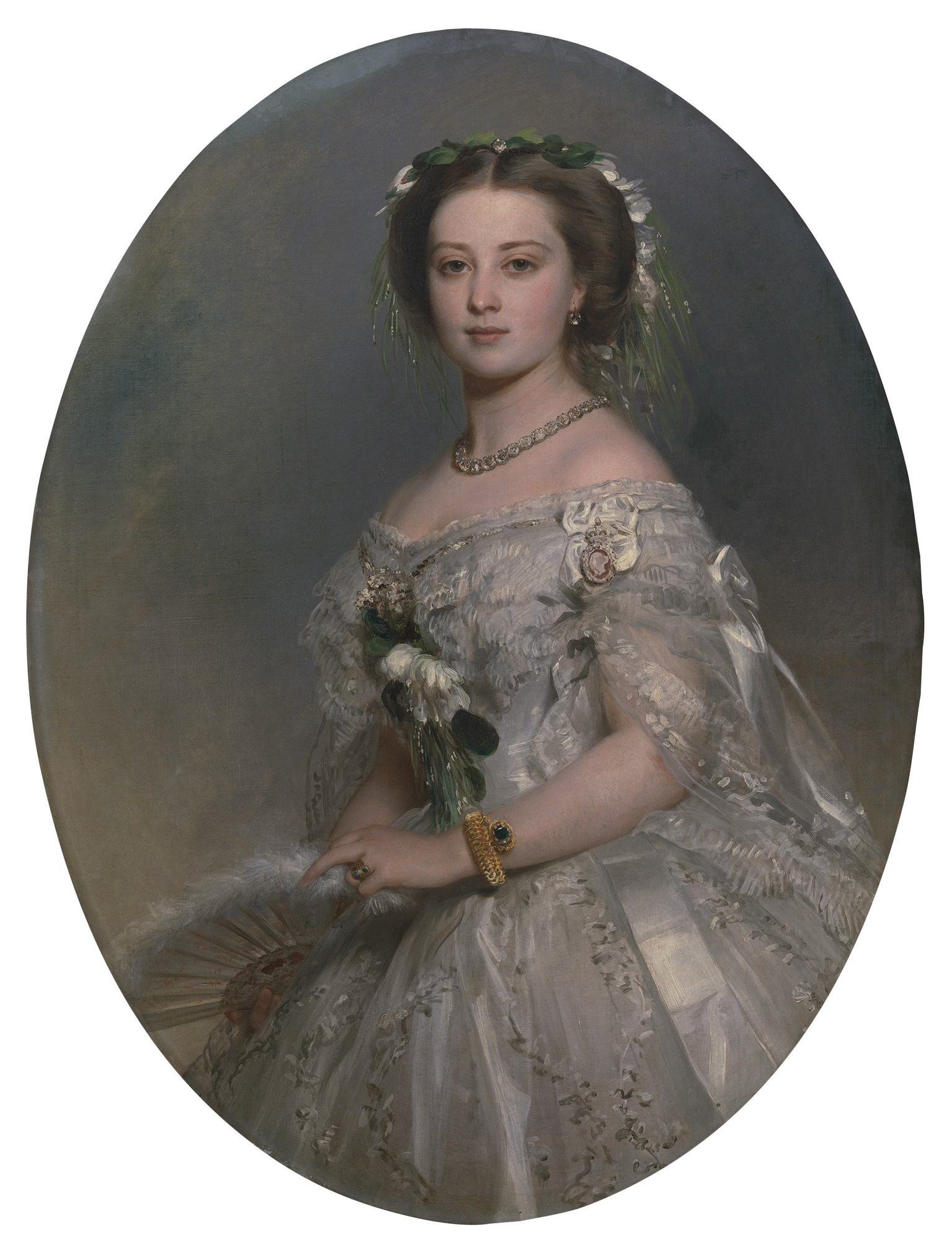 Caption from the museum's website Winterhalter was born in the Black Forest where he was encouraged to draw at school. In 1818 he went to Freiburg to study under Karl Ludwig Schüler and then moved to Munich in 1823, where he attended the Academy and studied under Josef Stieler, a fashionable portrait painter. Winterhalter was first brought to the attention of Queen Victoria by the Queen of the Belgians and subsequently painted numerous portraits at the English court from 1842 till his death. Princess Victoria, Queen Victoria's eldest daughter, wears the badge of the Order of Victoria and a prominently displayed ring on her left hand, alluding to her engagement to Prince Frederick William of Prussia, whose portrait Winterhalter painted at the same time (Schloss Friedrichshof). She was 17 years old. This painting is the first in a set of portraits of Queen Victoria's four eldest daughters. The Queen recorded in her Journal: 'Winterhalter has done a beautiful picture of Vicky, & is making an excellent head…of Fritz'. Signed and dated: F Winterhalter 1857. On the back of the lining canvas is a copy of the original inscription giving the names of the artist and sitter and the date, June 1857.